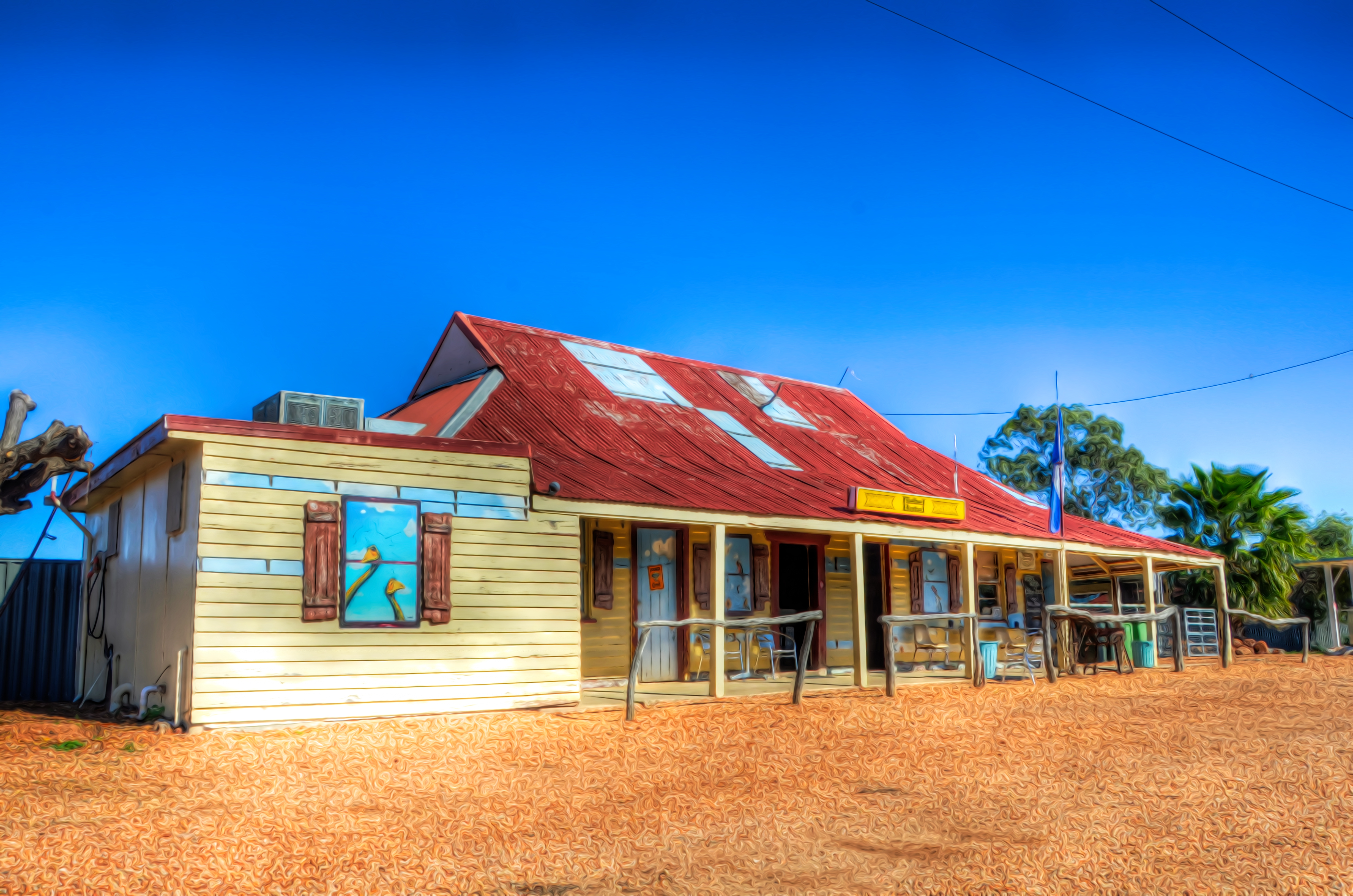 The Hebel Hotel, 2017, Hebel, Queensland, Australia